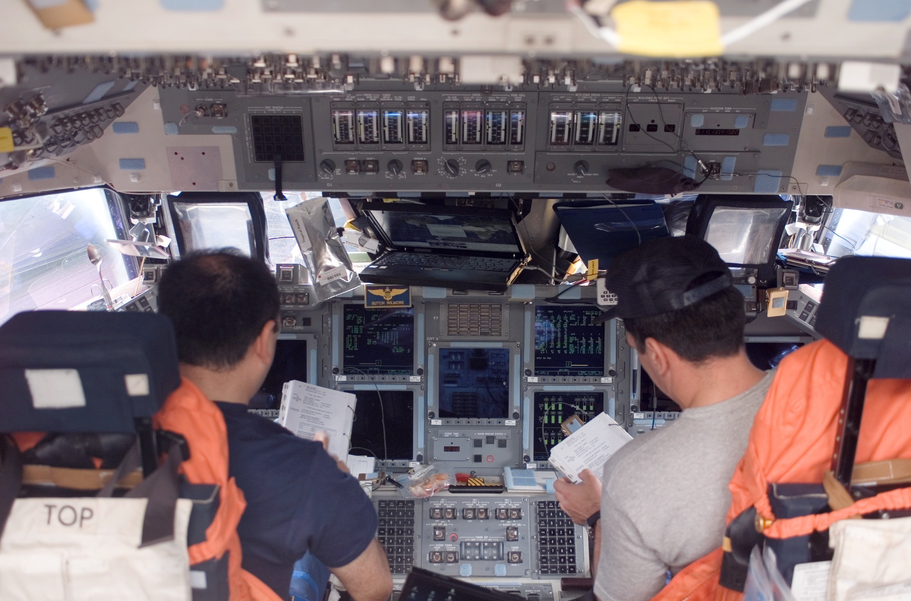 Flight deck of space shuttle Discovery during STS-116. STS-116 Shuttle Mission Imagery Astronauts Mark L. Polansky (left) and William A. (Bill) Oefelein, STS-116 commander and pilot, respectively, look over procedures checklists on the forward flight deck of Space Shuttle Discovery during flight day 13 activities. Note that the bottom has been trimmed off from the original image linked below. This shuttle here use a glass cockpit.